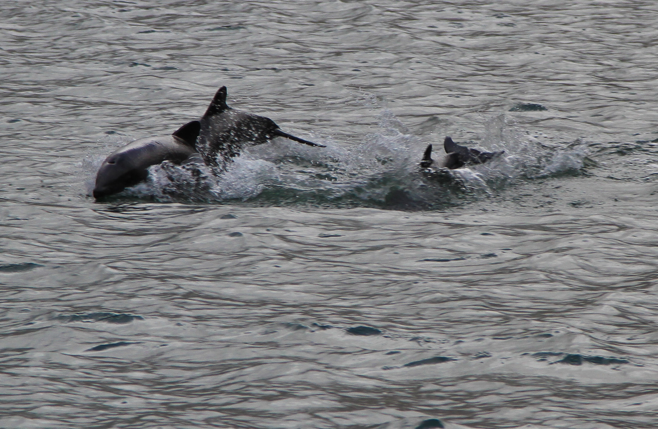 Black dolphins / Chilean dolphins around isla gordon in Southern chile